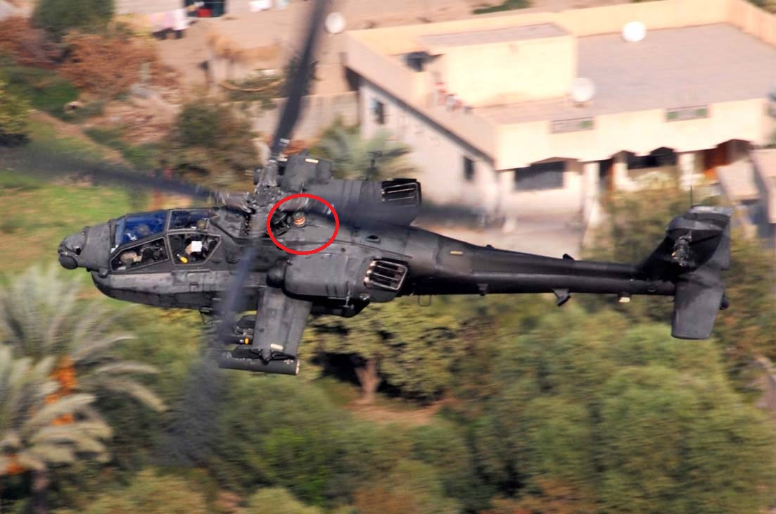 Photo by Chief Warrant Officer 4 Daniel McClinton, 1st ACB October 15, 2007 An AH-64D Apache from Company B, 1st "Attack" Battalion, 227th Aviation Regiment, 1st Air Cavalry Brigade, 1st Cavalry Division, flies over a residential area in the Multi-National Division-Baghdad area Oct. 12. The Apache crew was conducting a reconnaissance mission to keep an eye out for enemy mortar and anti-aircraft systems.